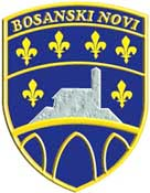 Grb Bosanskog Novog